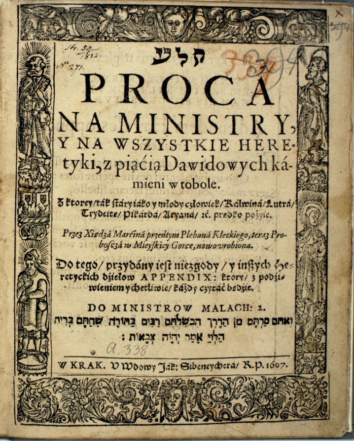 Admission ticket from "Proca..." (Kraków 1607) Marcin z Kłecka (XVI/XVII) - poet, writer, doctor, humanist